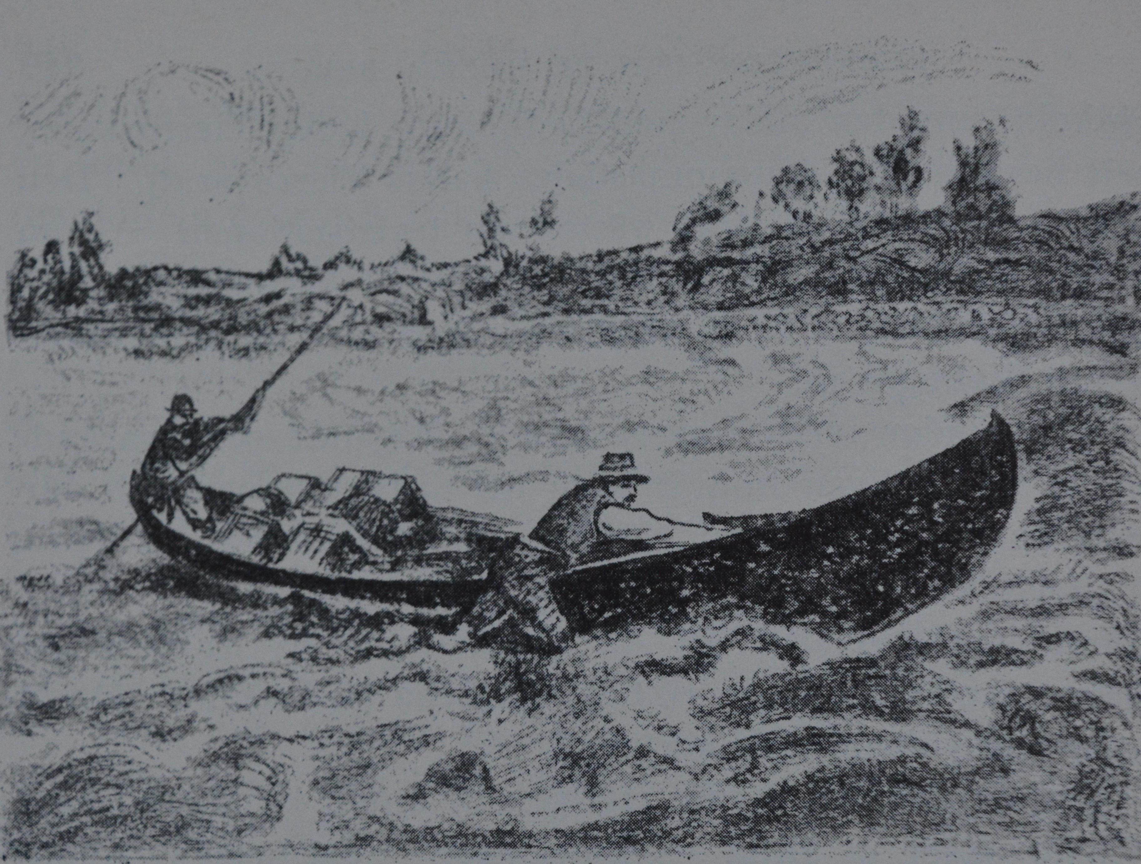 "Sik" fishing at the Kukkola rapids, Sweden Illustration in Svenska Turistföreningens årsskrift 1927